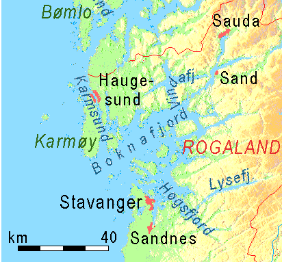 Physical map of Fjords and Sunds between Bergen and Stavanger, showing the position of Fensfjord, Hjeltefjord, Osterøy, Osterfjord, Vedfjord, Sørfjord, Raunefjord,Børnafjord,Lokksund,Langenuen, Stokksund and Bømlo, Hardangerfjord with Sørfjord and Eidfjord, Sauda, Haugesund, Karmsund and Karmøy, Boknafjord, Høgsfjord, Lysefjord.